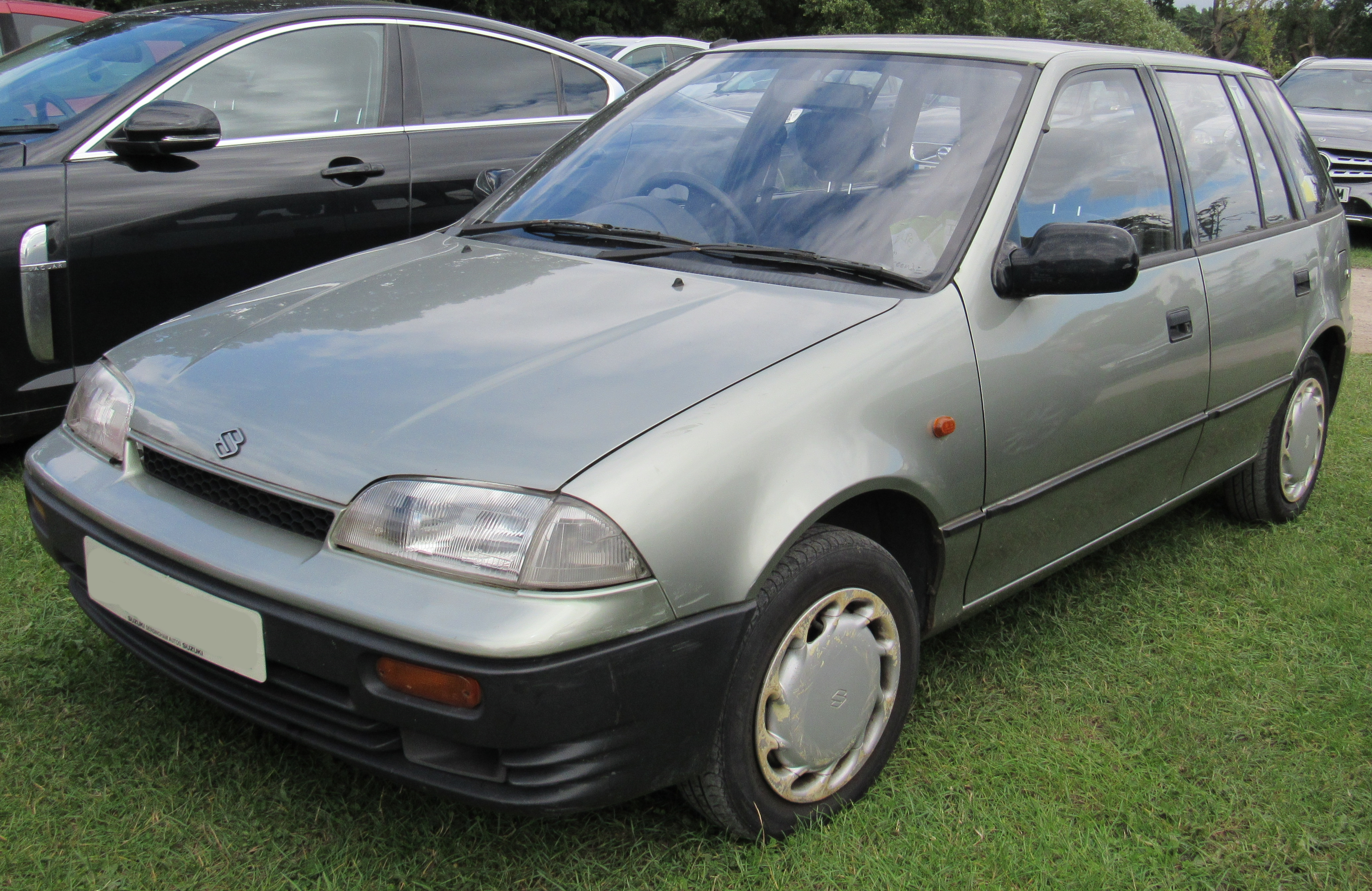 1996 Suzuki Swift GX 1.3 Front Taken at Warwick Castle